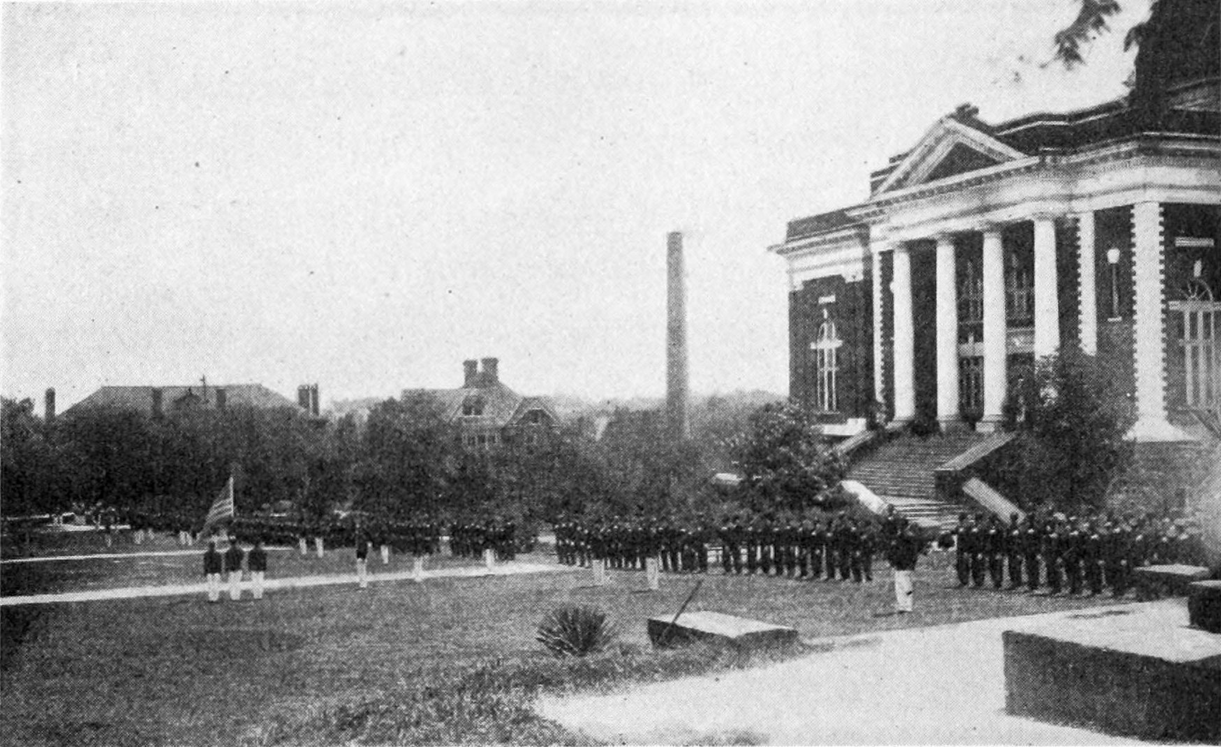 Tuskegee University (c. 1916)